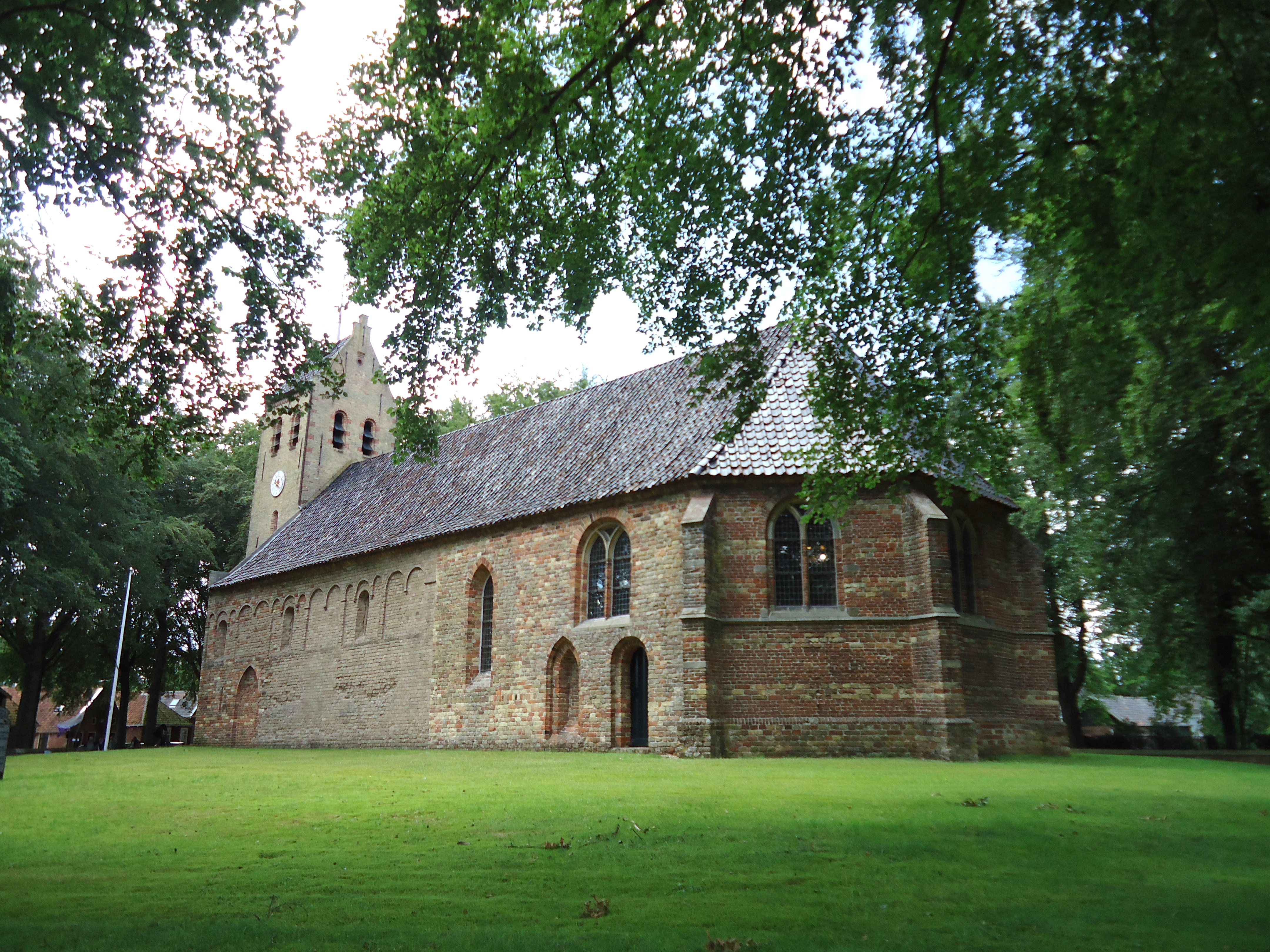 Bonifatius church in Oldeberkoop in Friesland (ab.1150)